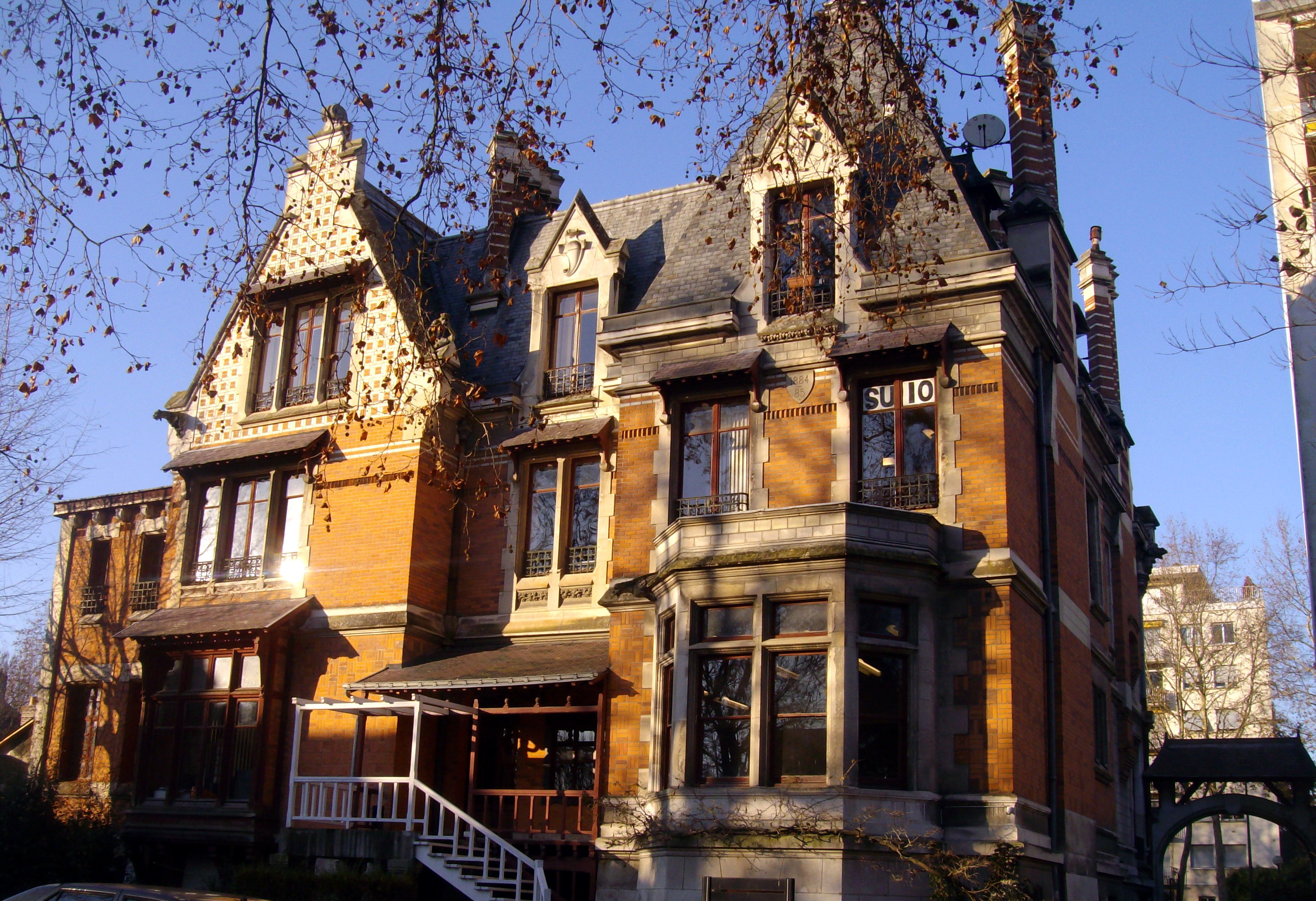 116 Boulevard Béranger à Tours